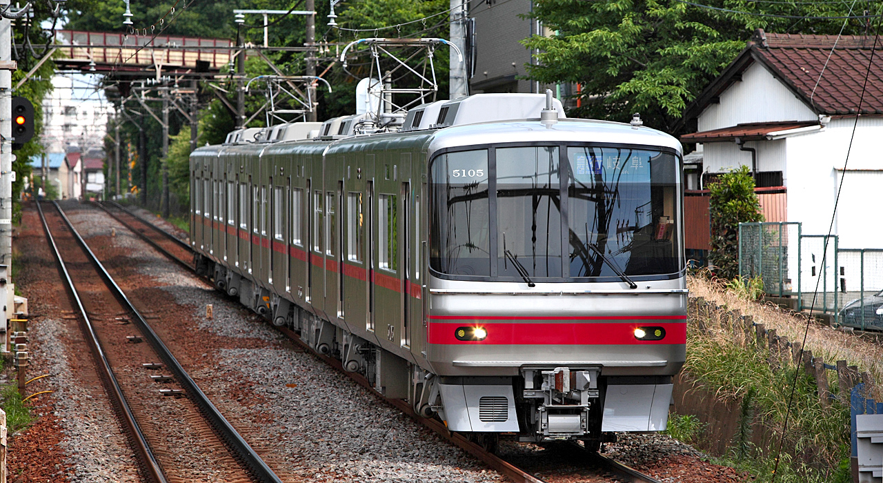 Meitetsu 5000 series ( II ) EMU ( 5005F at Yobitsugi Sta. )